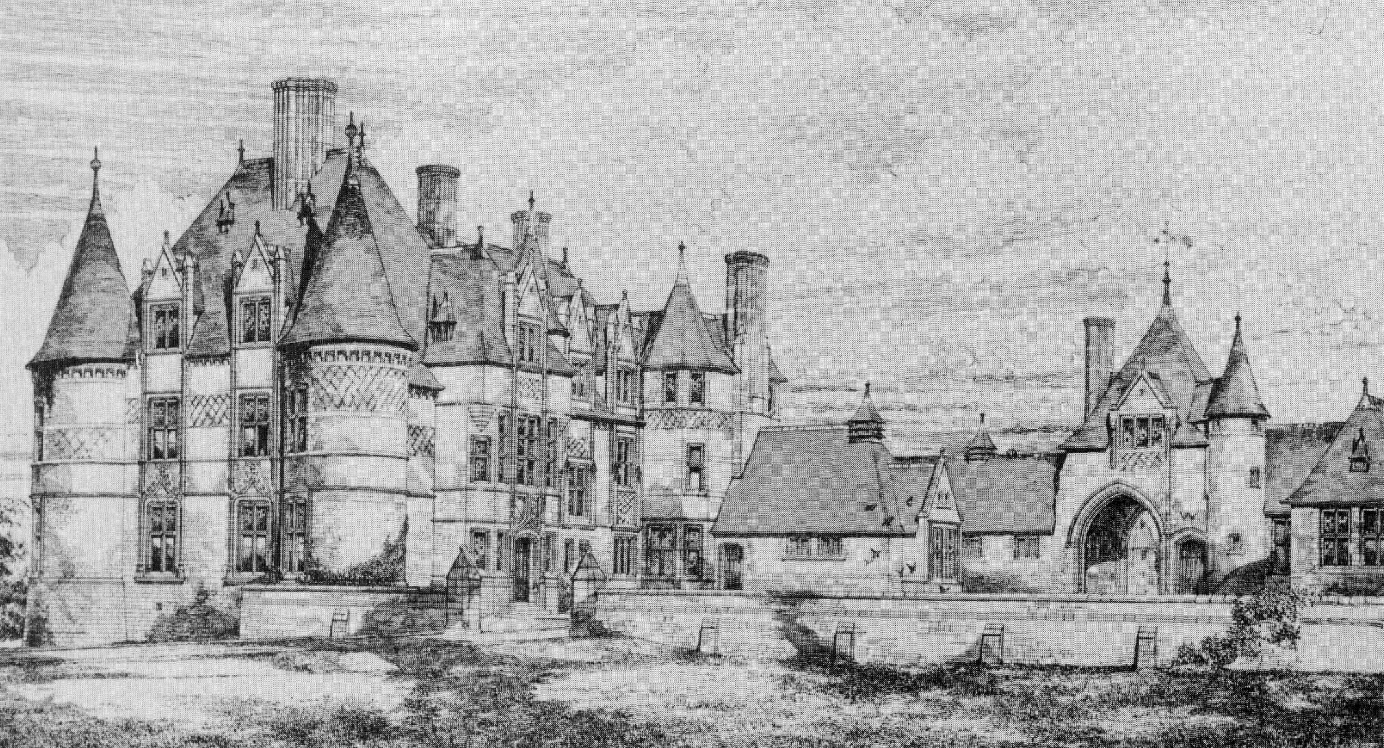 Scanned by the book by me. Taken from Building News, 45, 1883, p. 288